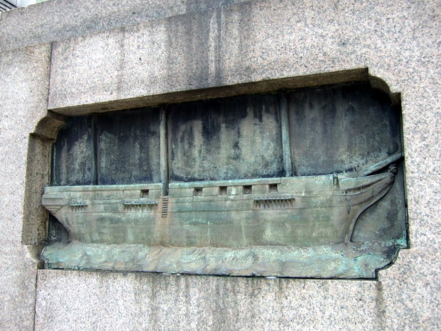 Richard Green's statue: eastern relief The bronze relief on the eastern side of the pedestal below the statue of Richard Green depicts the first, fast, tea clipper he designed for the China run, the Americans having overtaken the British in speed and thus control of the lucrative tea trade.